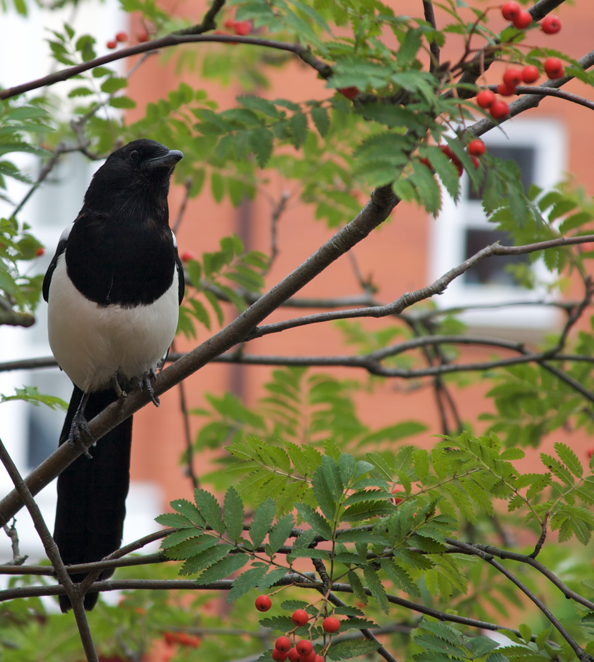 A European Magpie, also called a Common Magpie, perching on a branch of a Rowan tree in Manchester, England.